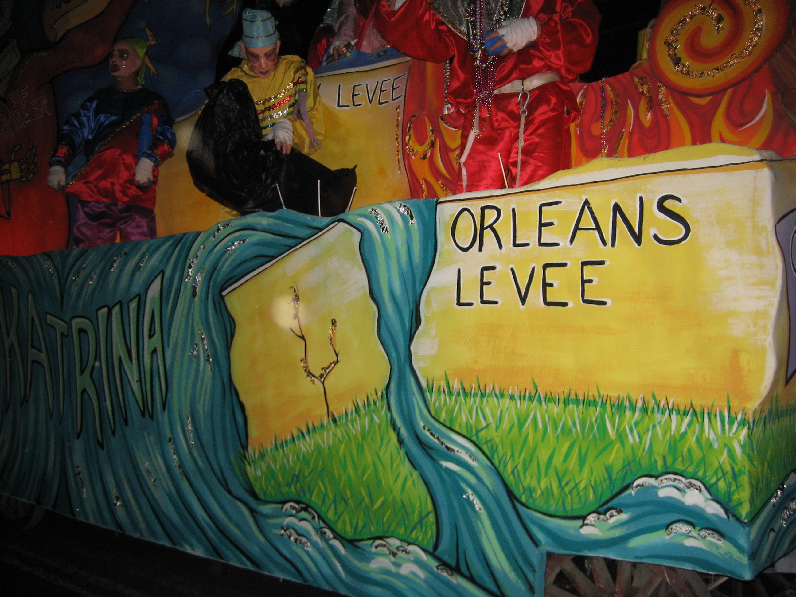 New Orleans Carnival 2006. Float satirzes Army Corps of Engineers, whose misdesigned levees collapsed, flooding most of the city and killing many